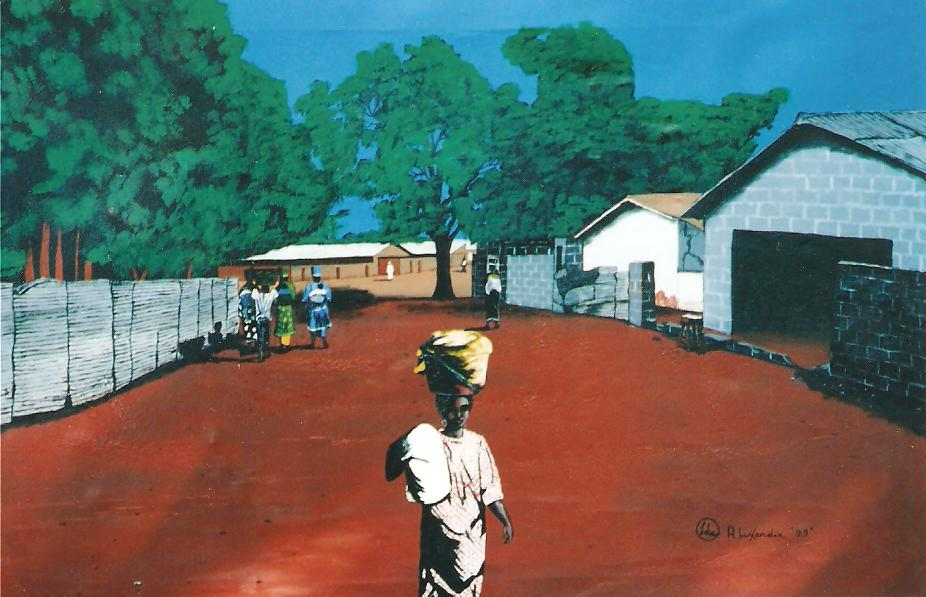 Artist: Larry D. Alexander Source: Larry D. Alexander's Home Files Title: "African Mothers" Medium: Acrylic 24"x36"